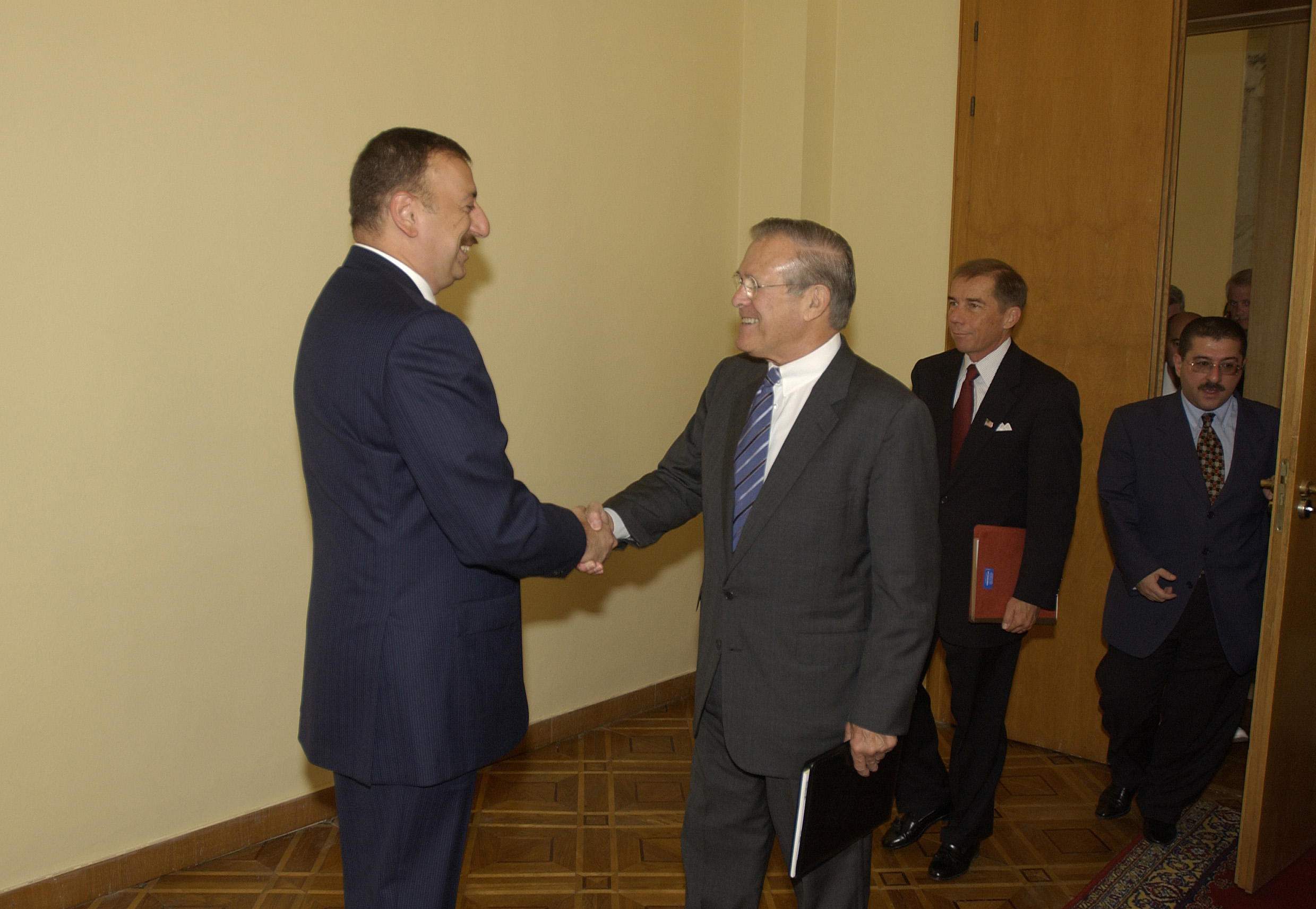 Secretary of Defense Donald H. Rumsfeld (center) is greeted by Azerbaijan President Ilham Aliyev (left) at the Presidential Palace on August 12, 2004. Rumsfeld is in Baku, Azerbaijan, to meet with Aliyev and Defense Minister Safer Abiyer to discuss mutual security interests and to thank Azerbaijan for its support in the Global War on Terrorism. DoD photo by Master Sgt. James M. Bowman, U.S. Air Force. (Released)